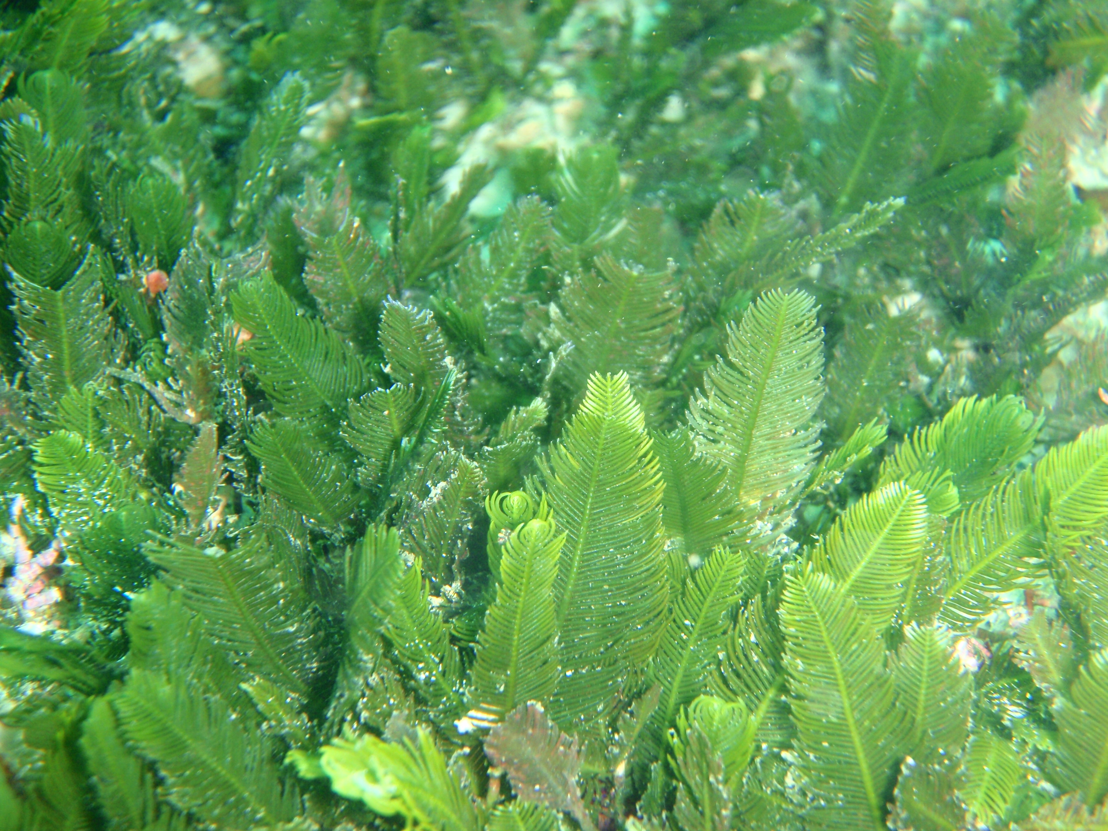 Feathery caulerpa at Finlay's Point on the Cape Peninsula